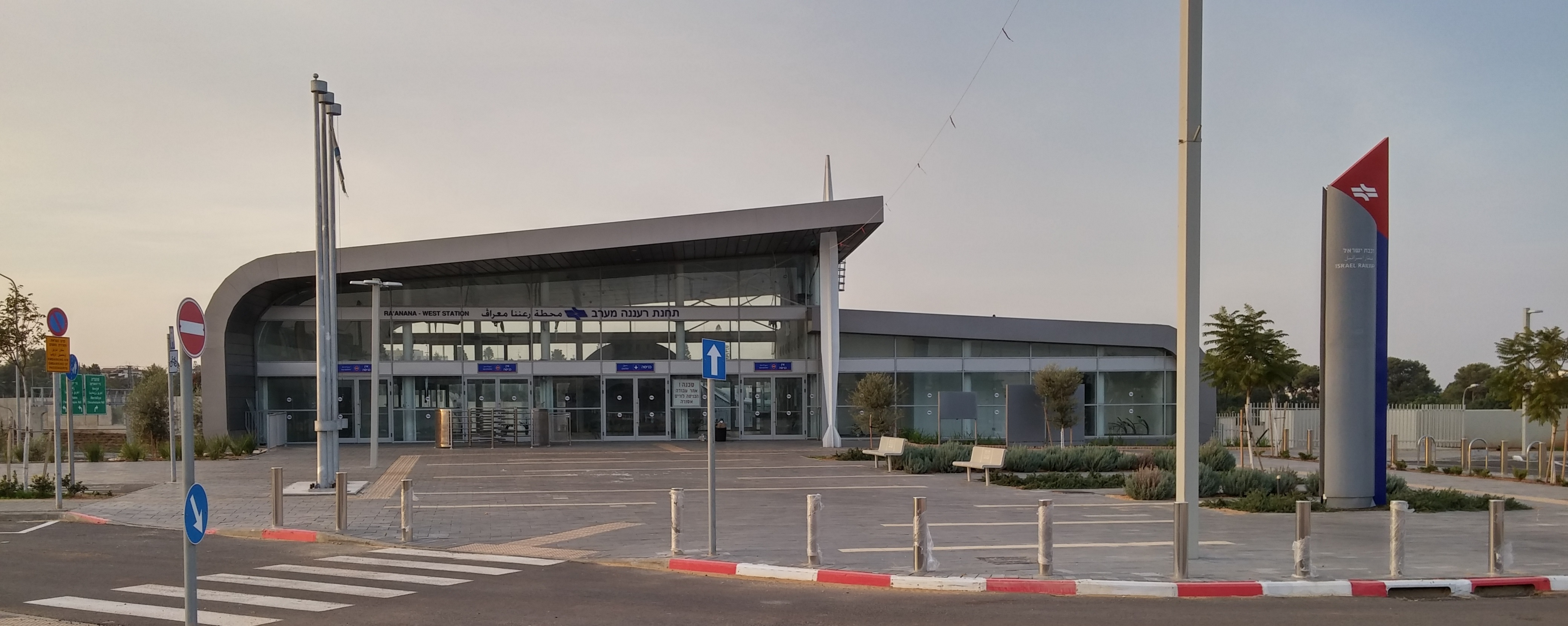 Raanana West train station